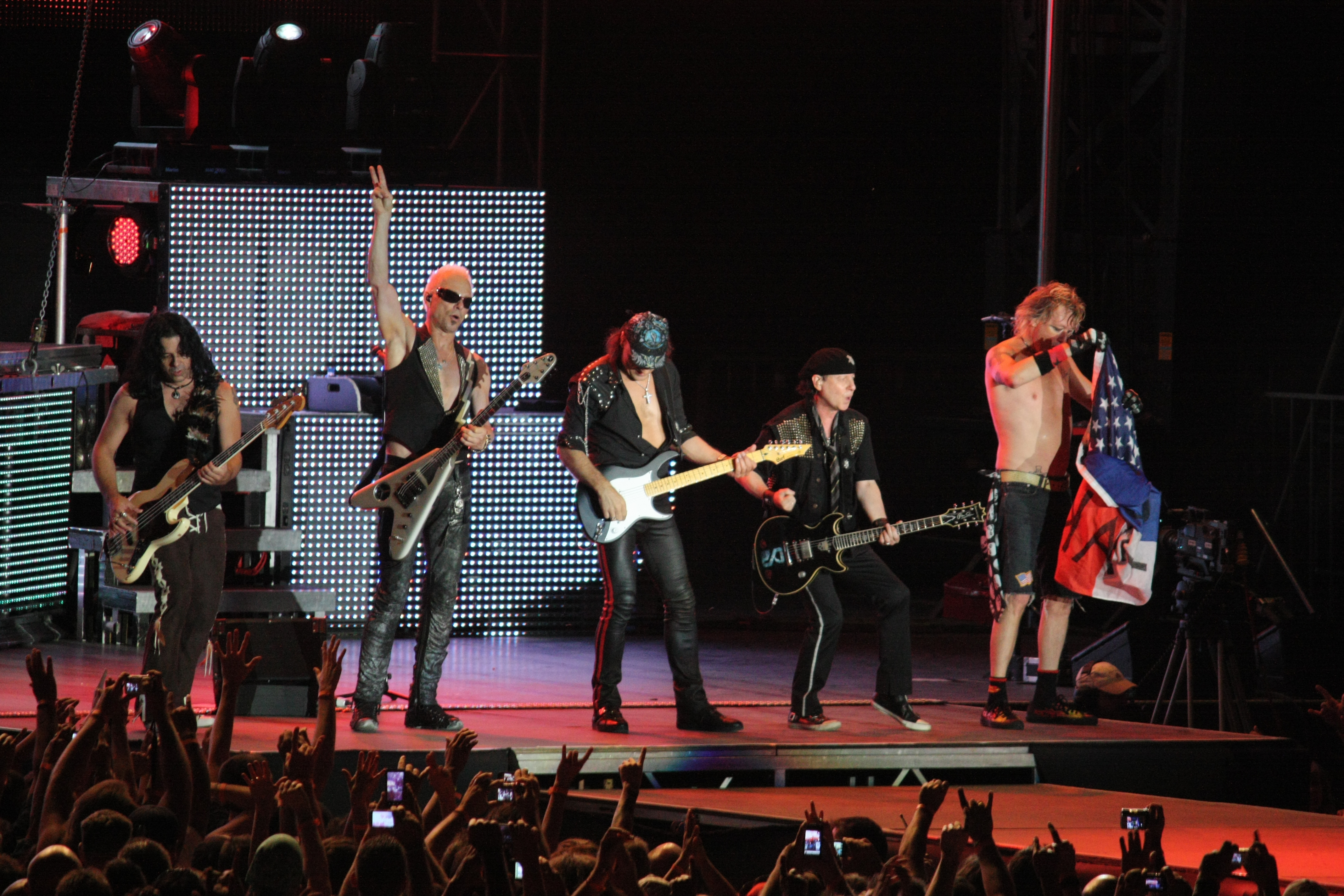 The German heavy metal band Scorpions playing live during their Farewell Tour in 2010